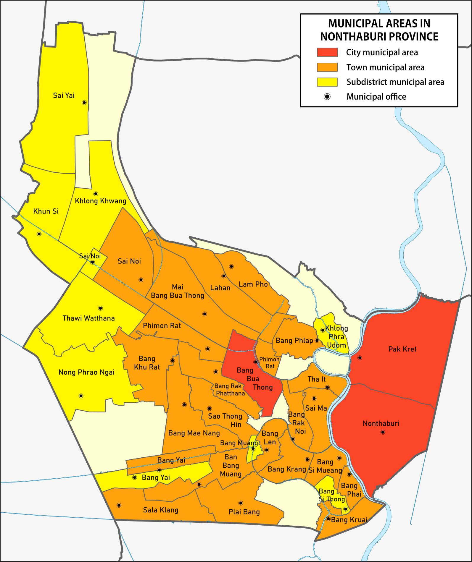 Map of municipal areas in Nonthaburi Province: City municipalities (thetsaban nakhon) Town municipalities (thetsaban mueang) Subdistrict municipalities (thetsaban tambon)